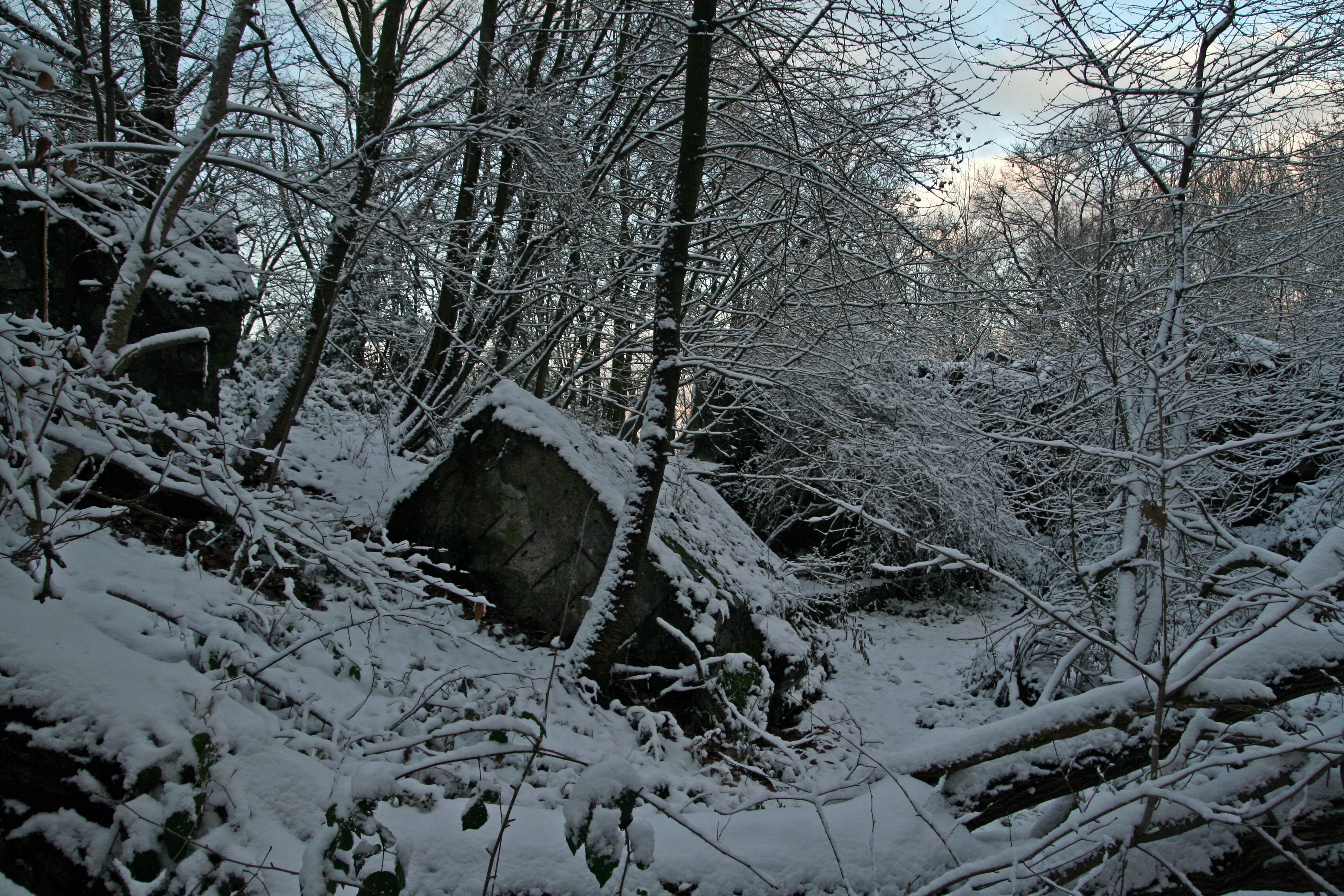 Hitlers Headquarter "Felsennest" in Rodert, Bad Münstereifel, Germany